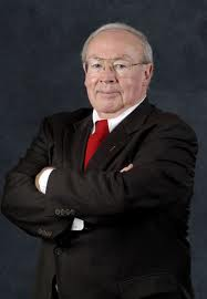 This is Former Insurance Commissioner Of North Carolina Jim Long "James Eugene Long" He served as this position for 24 years